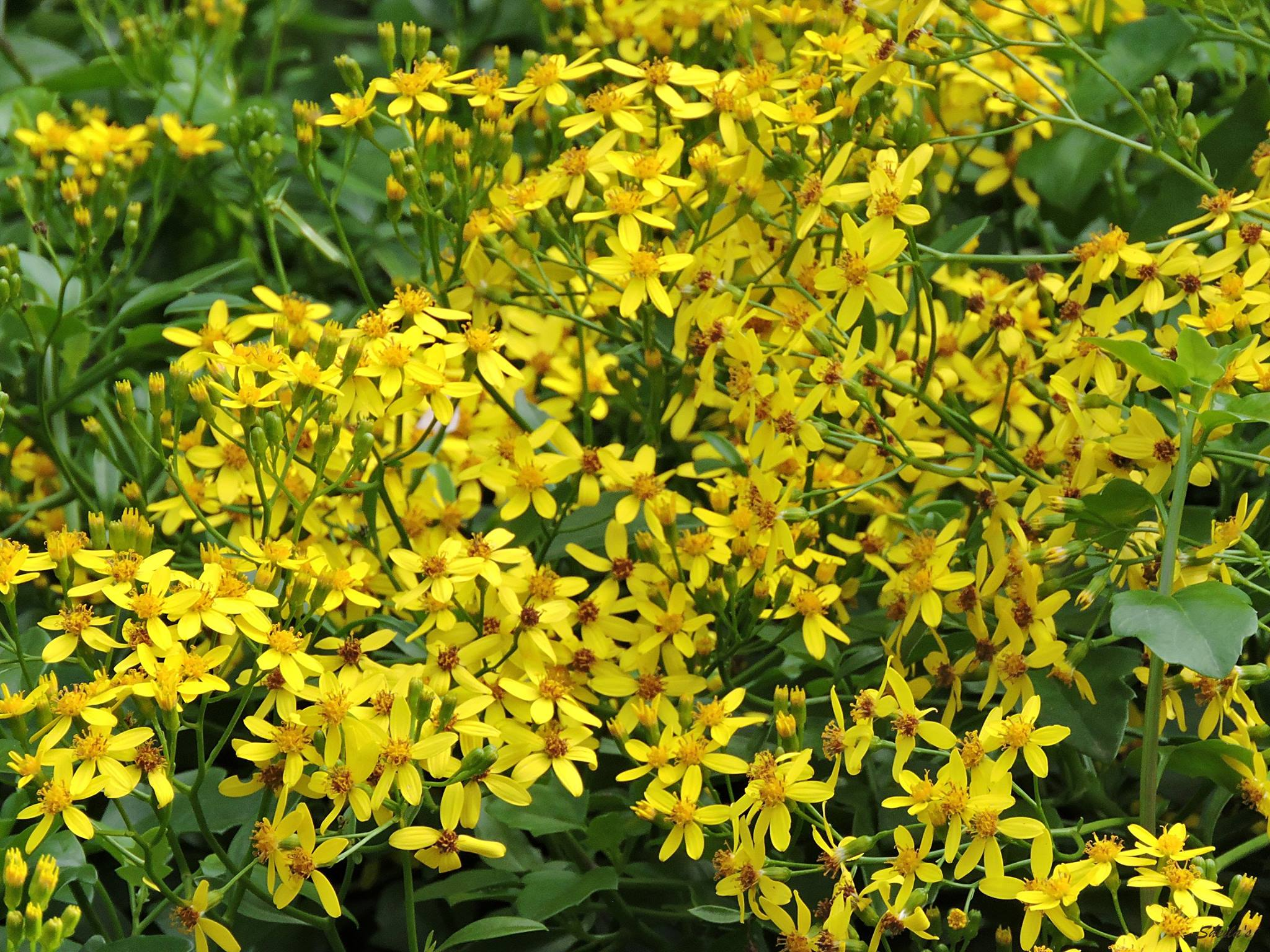 Close up of daisy flowers of Creeping Groundsel